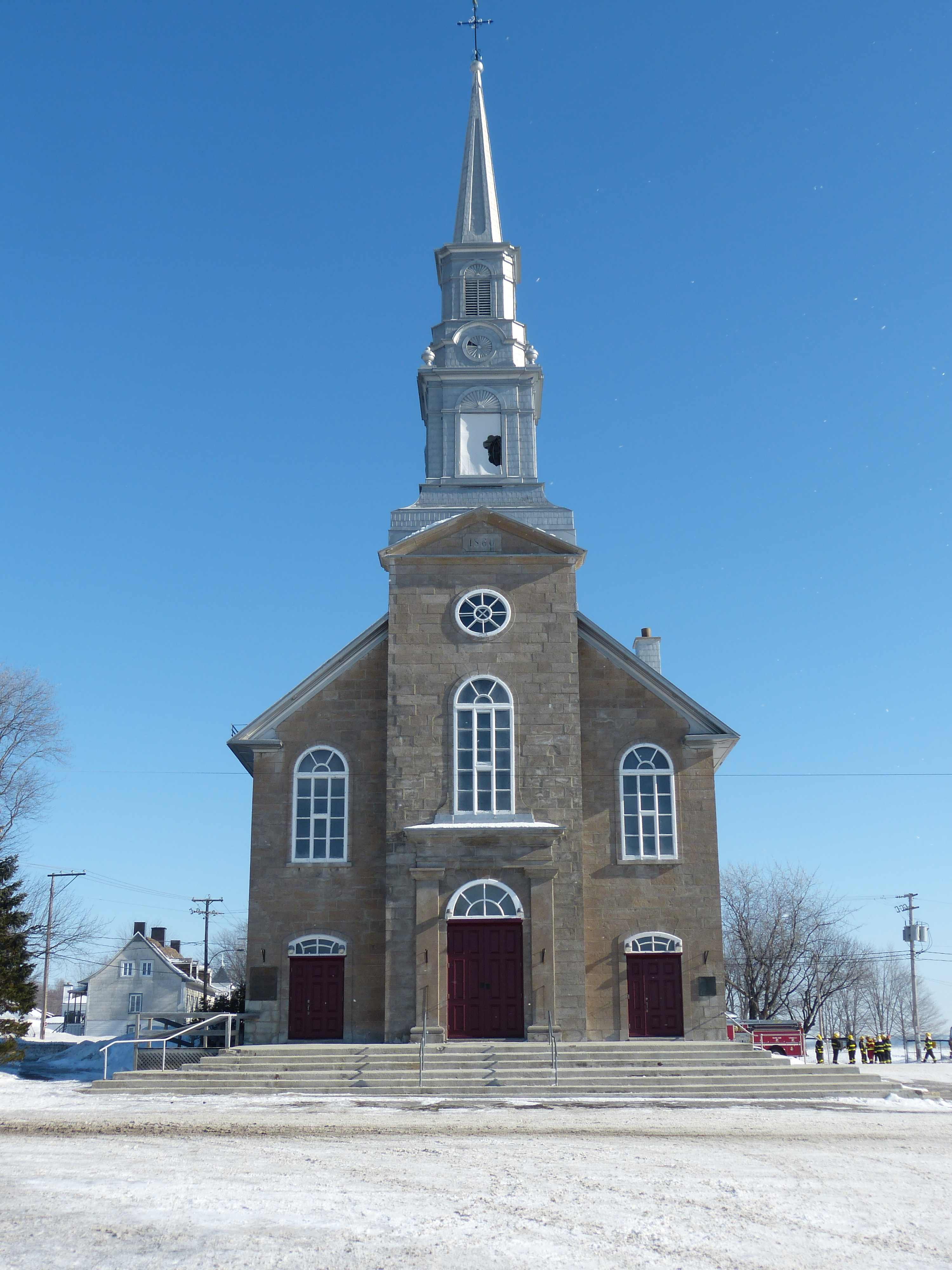 Église de Saint-Laurent de l'Ile d'Orléans